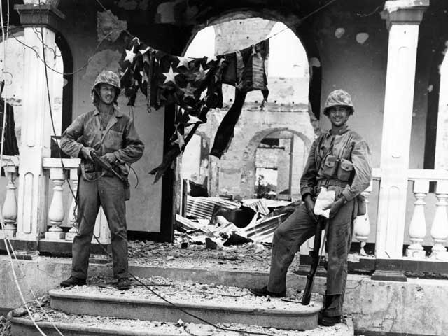 Original Caption: Torn and tattered. These 3rd Division Marines found this American flag in the ruins of a building on the Plaza de Espana and strung it across the entrance to the ruined Catholic Cathedral at Agana, Guam. July 31, 1944. (USMC Hdqrs # 93, 578, Marine Corps Historical Center). Category:Images of Guam Category:United States Marine Corps images